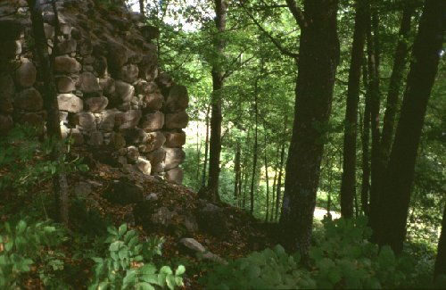 Trikata castle